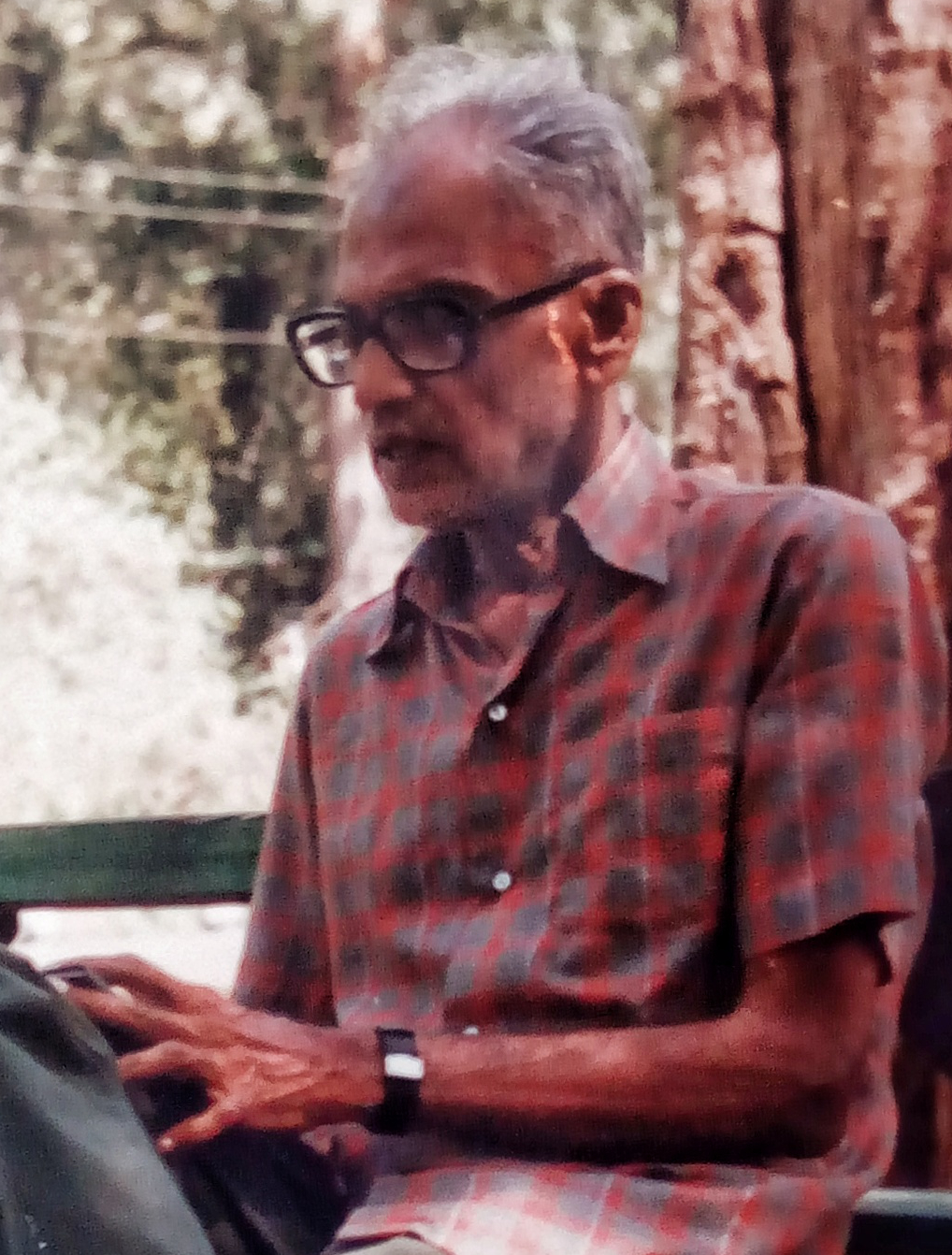 Prof. K.K. Neelakantan addressing the participants of the Birdwatchers' Camp, Thekkady (Kerala), May 5, 1987.